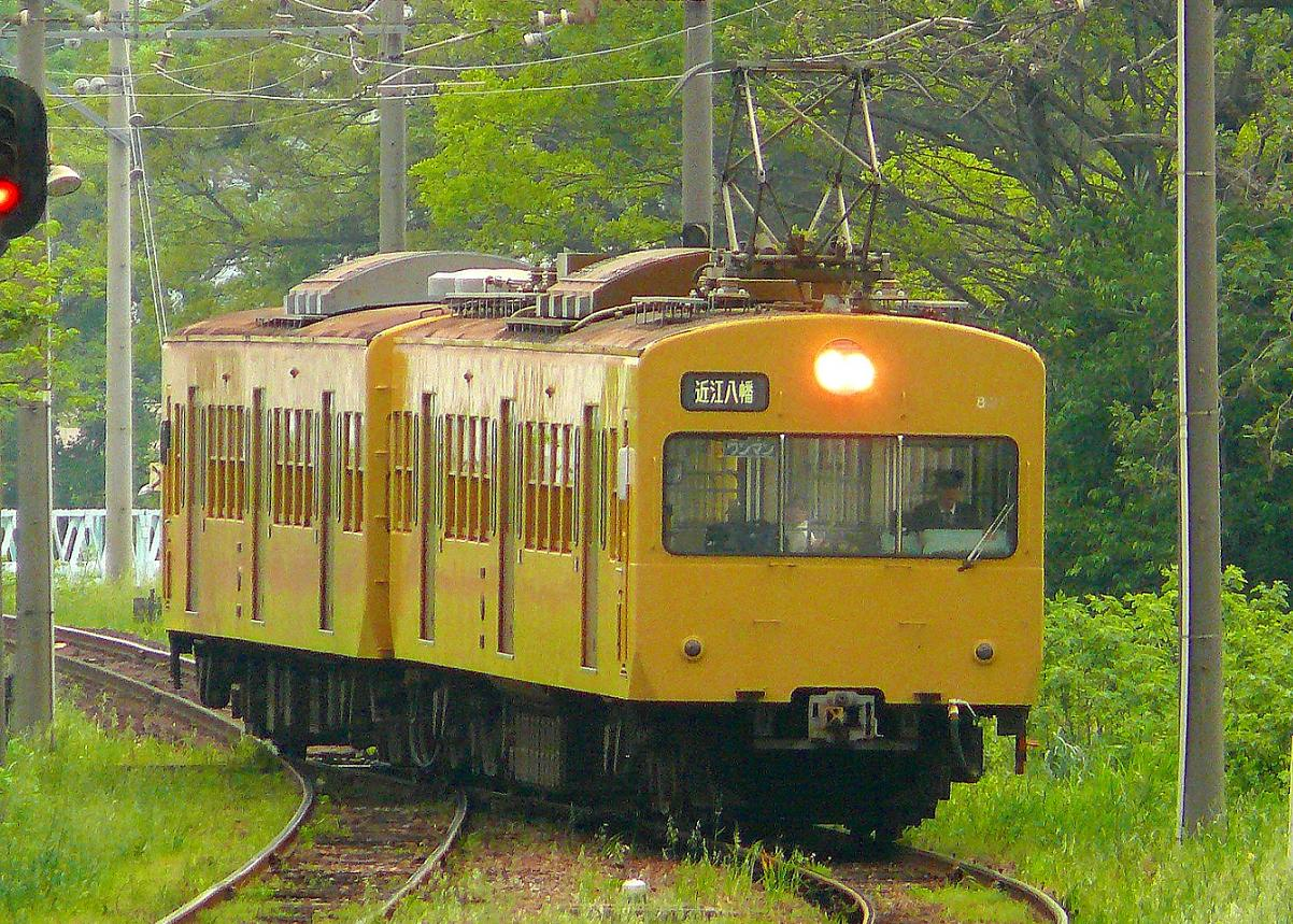 Ohmi Railway Type 820 (821 + 1821) Train (Japan). Taking a picture from Hikoneguti Station platform in Ohmi Railway line.